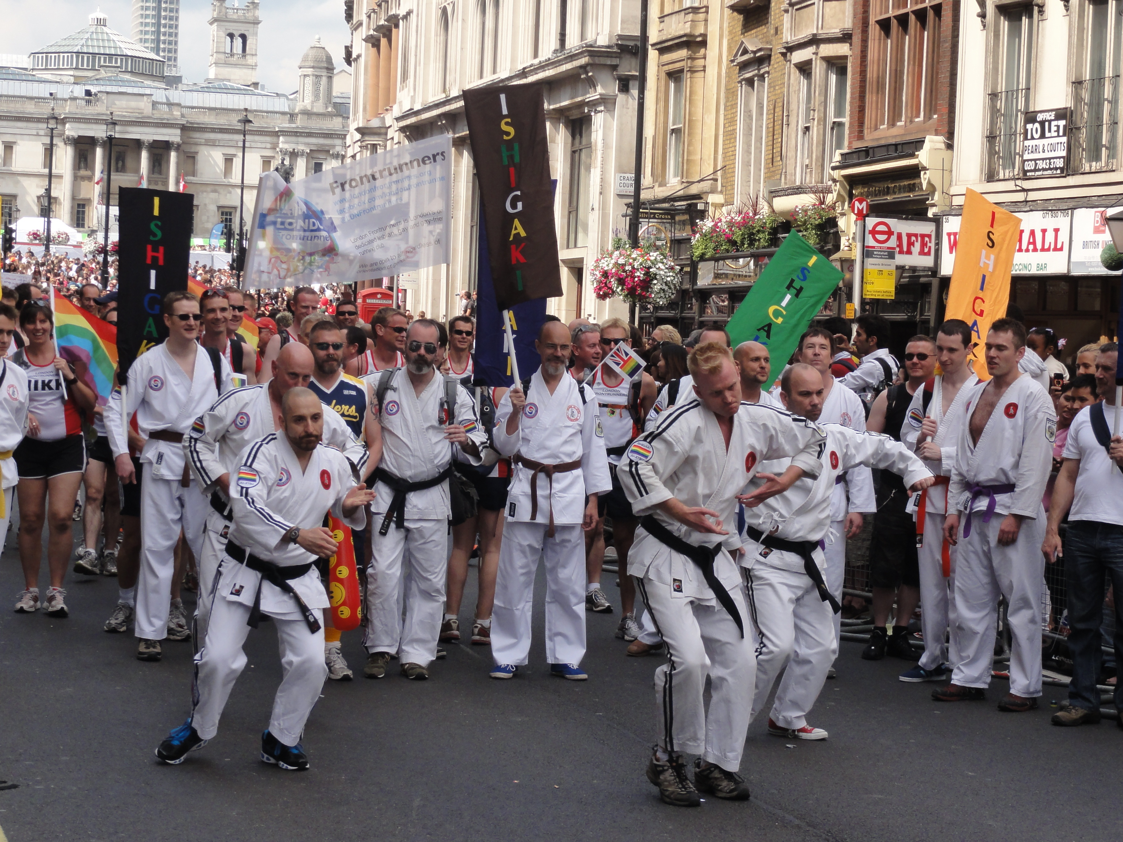 Pride London 2011, near Whitehall.